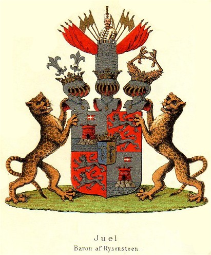 Coat of arms of the baronial Juul-Rysensteen family